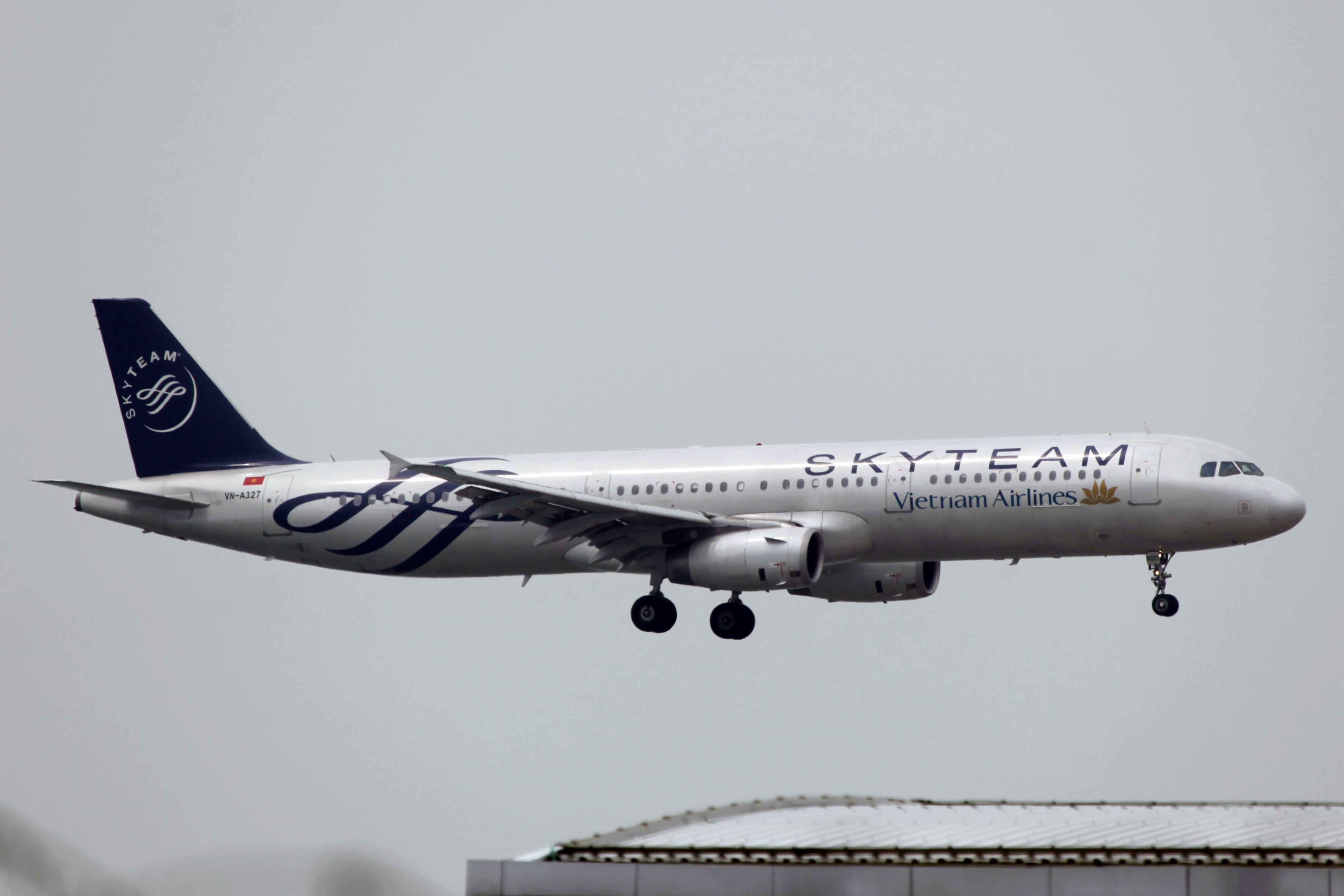 VN-A327 | Vietnam Airlines | Airbus A321-231 | Skyteam Livery | Hong Kong Chek Lap Kok International Airport [HKG]